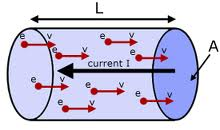 Electron moving with drift velocity opposite to the direction of current.